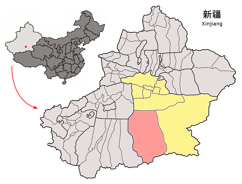 Location of Qiemo County (pink) and Bayin'gholin Prefecture (yellow) within Xinjiang autonomous region of China Map drawn in september 2007 using various sources, mainly : Xinjiang Uygur autonomous region administrative regions GIS data: 1:1M, County level, 1990 Xinjiang Counties map from